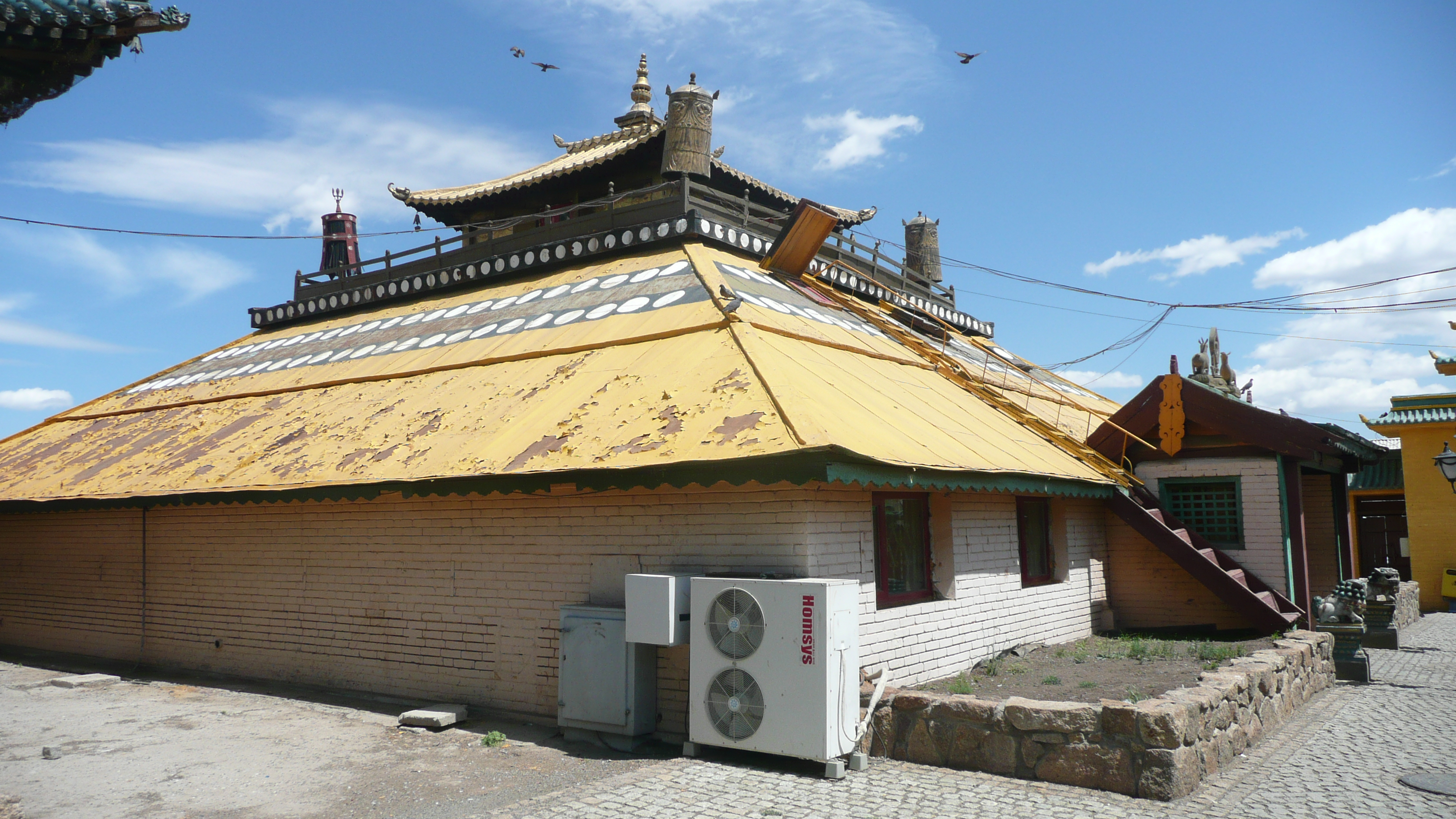 Gandan Monastery in Ulan Bator